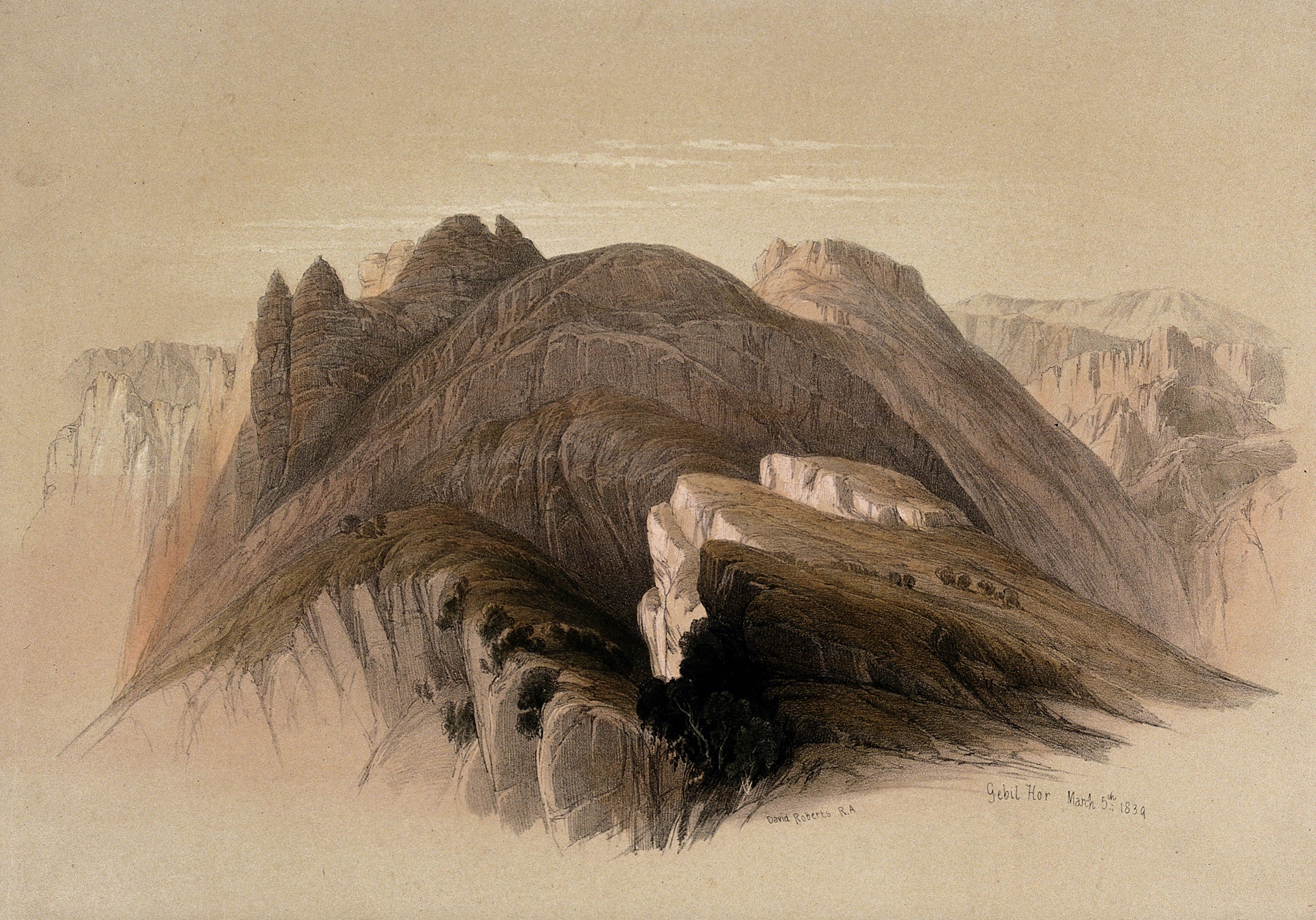 Mount Hor, seen from the cliffs near Petra. Coloured lithograph by Louis Haghe after David Roberts, 1849. Iconographic Collections Keywords: David Roberts; Louis Haghe